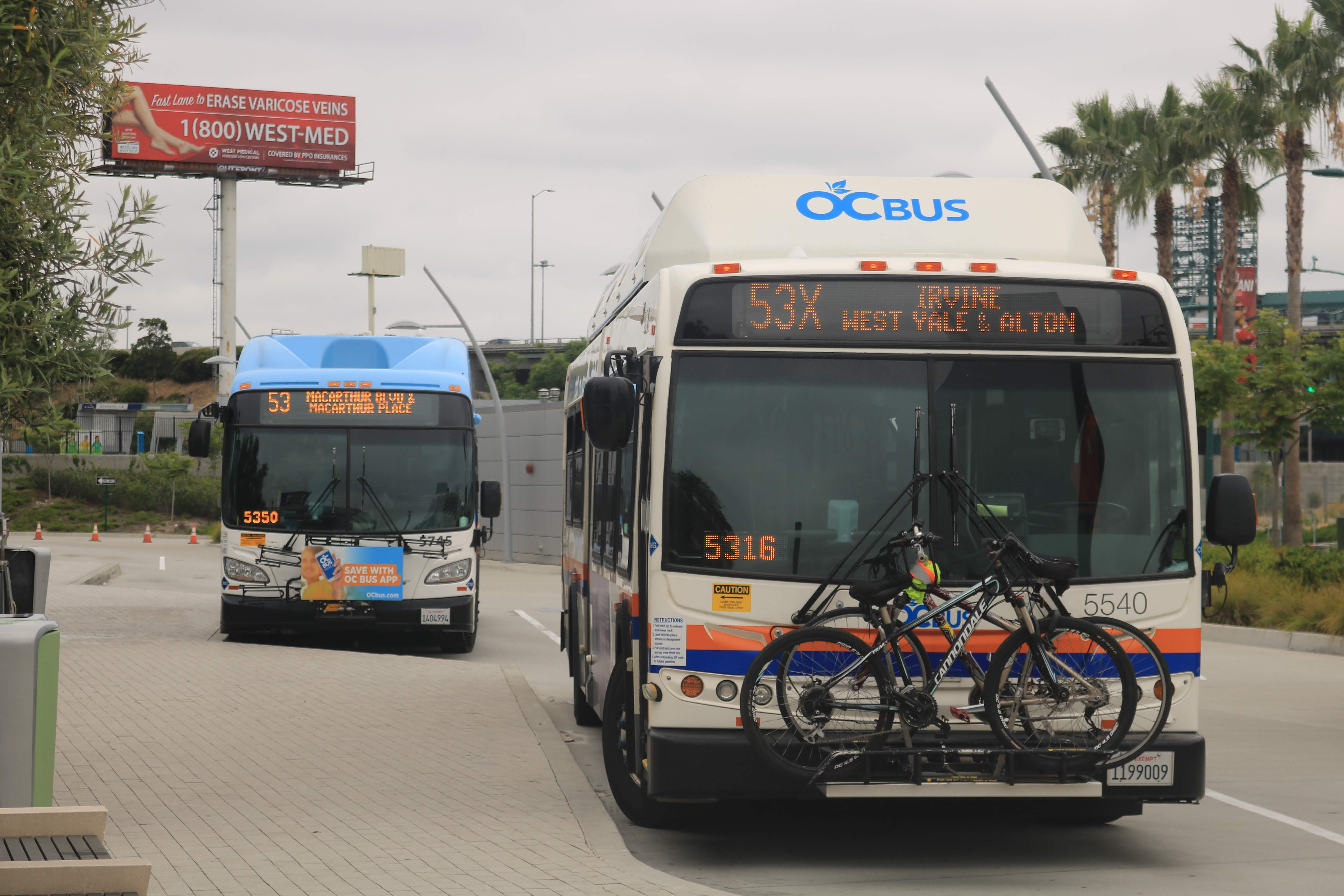 OCTA units 5540 and 5745 parked at Anaheim Regional Transportation Intermodal Center before departing on routes 53X and 53, respectively. 5540 is a NFI C40LFR while 5745 is an NFI XN40